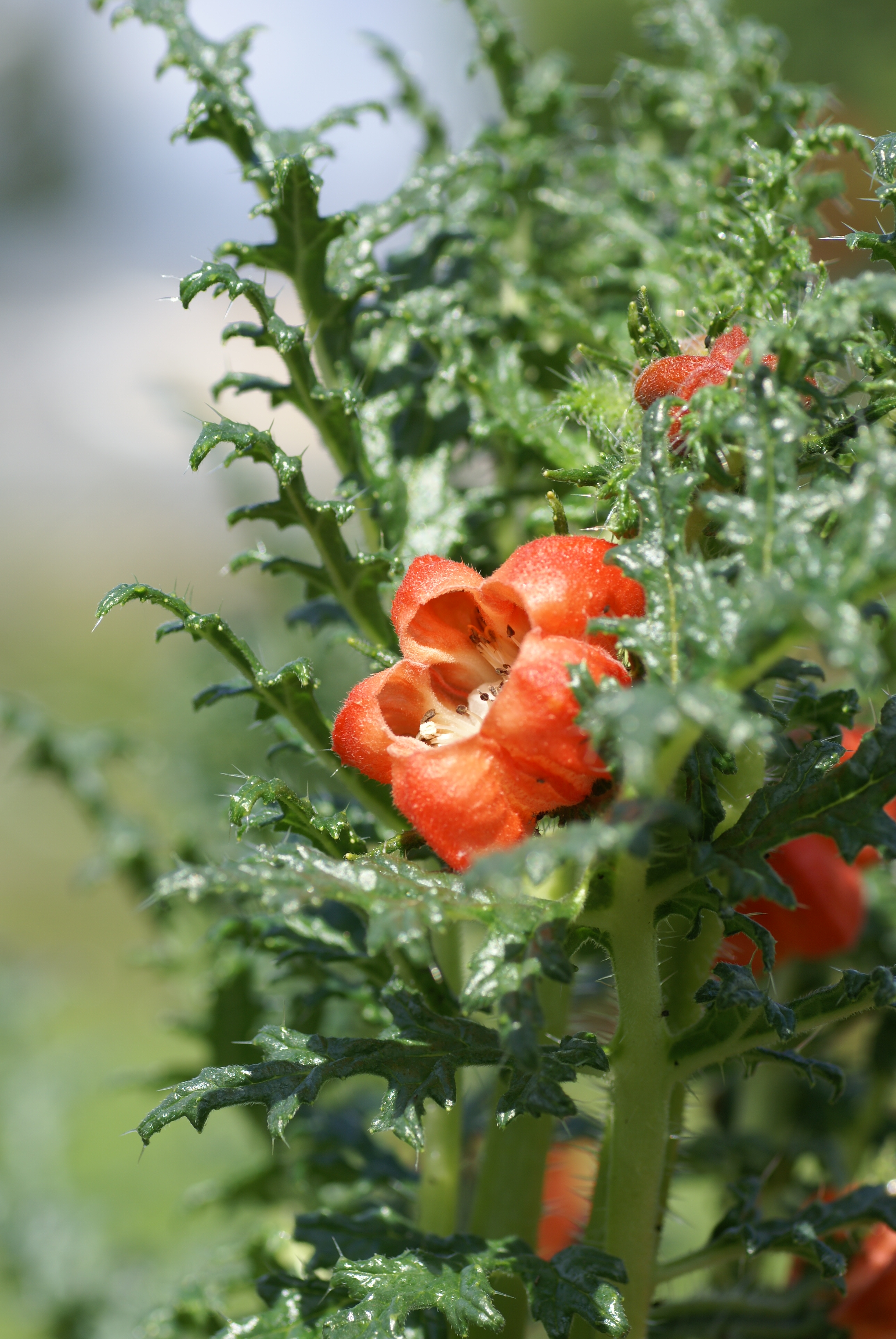 Plant species Caiophora chuquitensis in Bergianska trädgården, in Stockholm, Sweden.